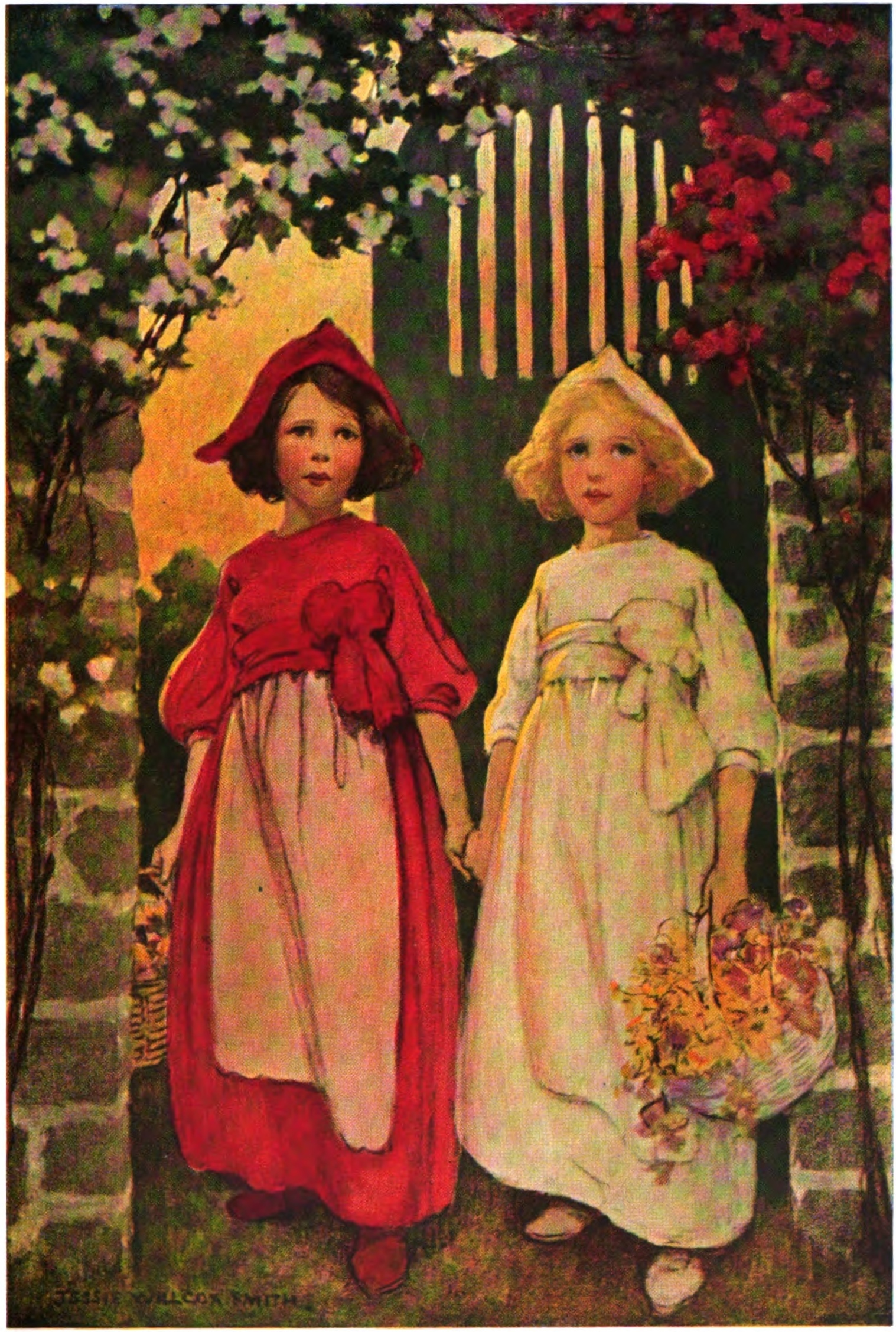 "Snow White and Rose Red" (source). From A Child's Book of Stories by Penrhyn W. Coussens (link to page), illustrated by Jessie Willcox Smith. New York: Duffield and Company, 1911.